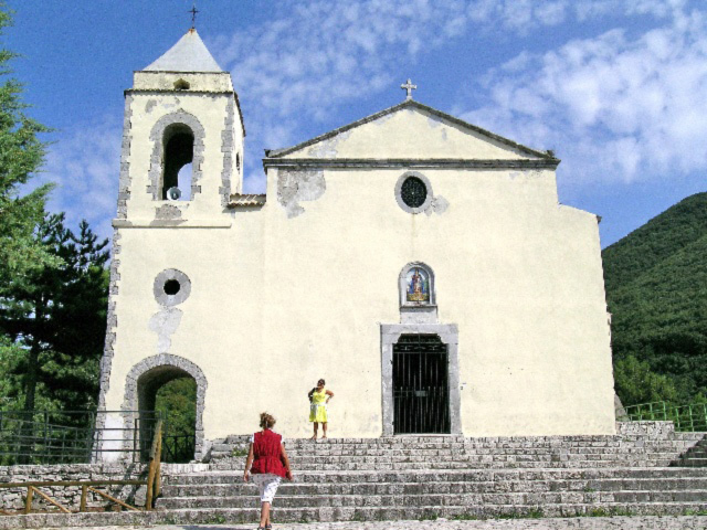 Picture of the sanctuary of the Madonna of the Rose Garden of Solopaca